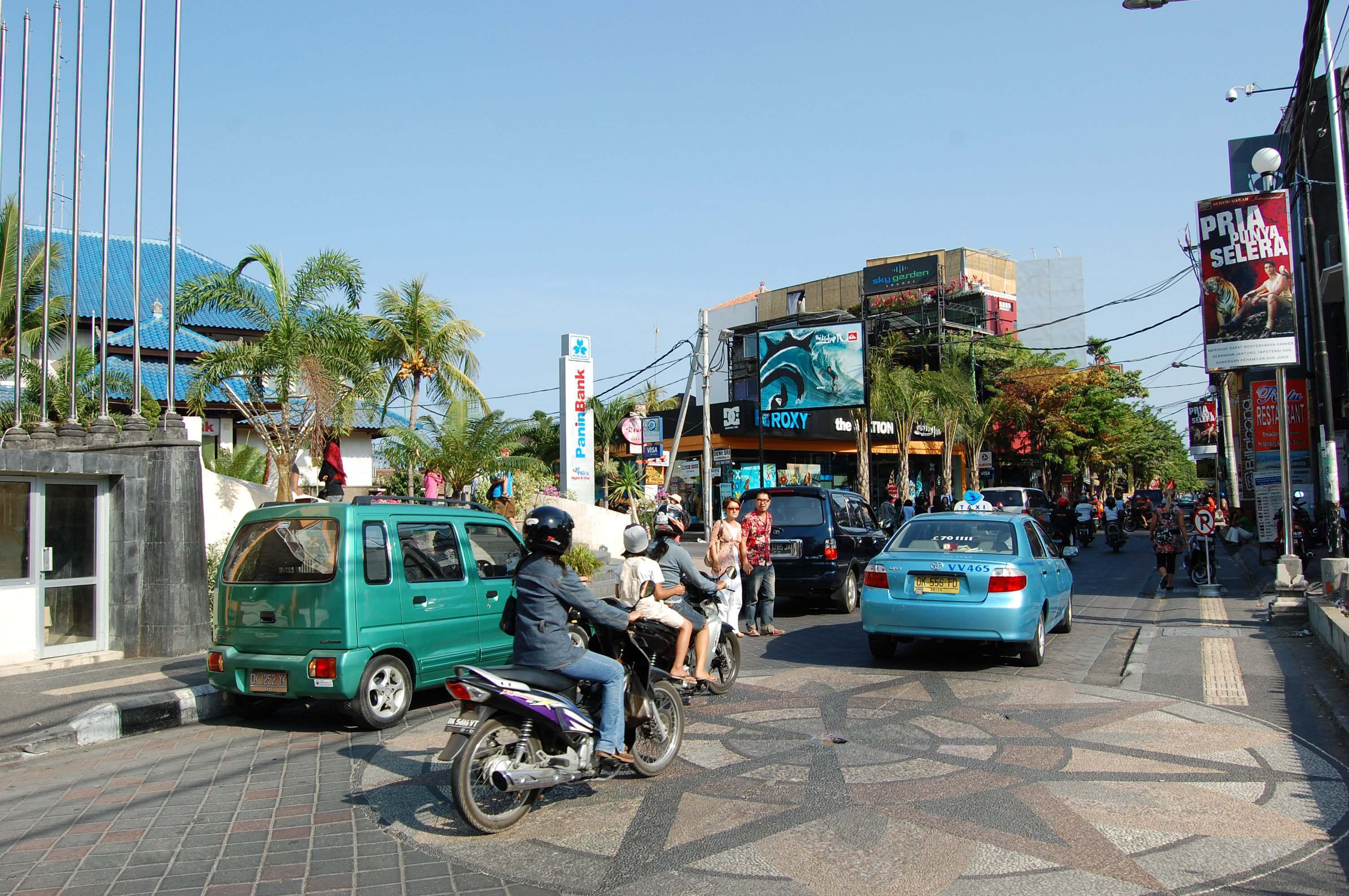 The ground zero of the 2002 Bali bombings (photo: September 2007, by Jeffrey Pamungkas)